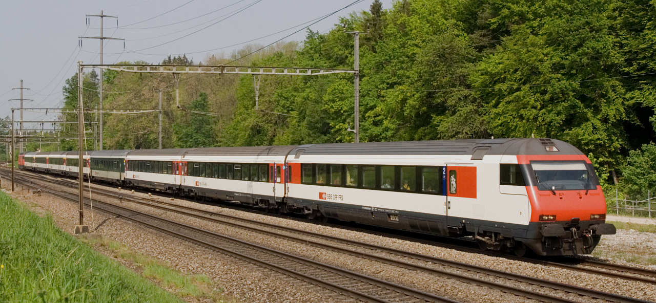 SBB Intercity train consisting of modernised and one non-modernised EW IV standard coaches and an IC Bt driving trailer approaching Effretikon. The train is pushed by an Re 460.